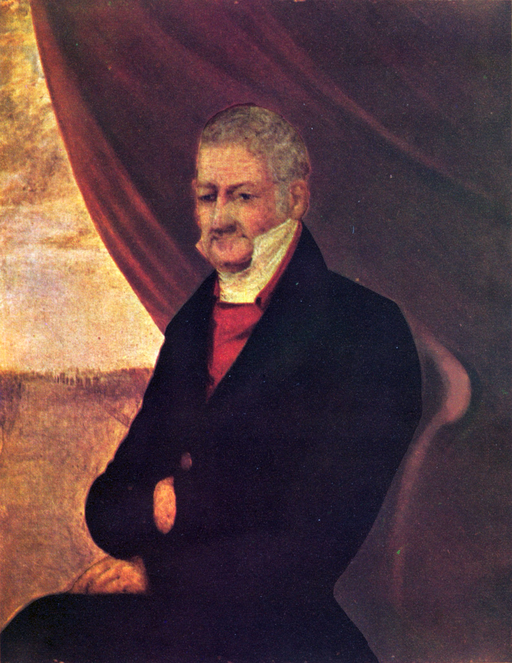 Juan Manuel de Rosas during his exile.